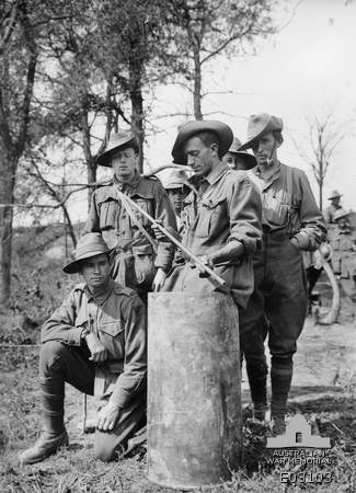 AWM caption : France: Picardie, Somme, Chuignolles. Unidentified soldiers at Arcy Wood, near Chuignolles, with the shell case of a 15 inch naval gun captured by the 3rd Battalion on 23 August 1918, during the battle of Chuignes, to illustrate the size of the shell. The soldier standing in the shell case is holding a single stick of cordite from the charge. Note the soldier on the right is smoking a pipe.